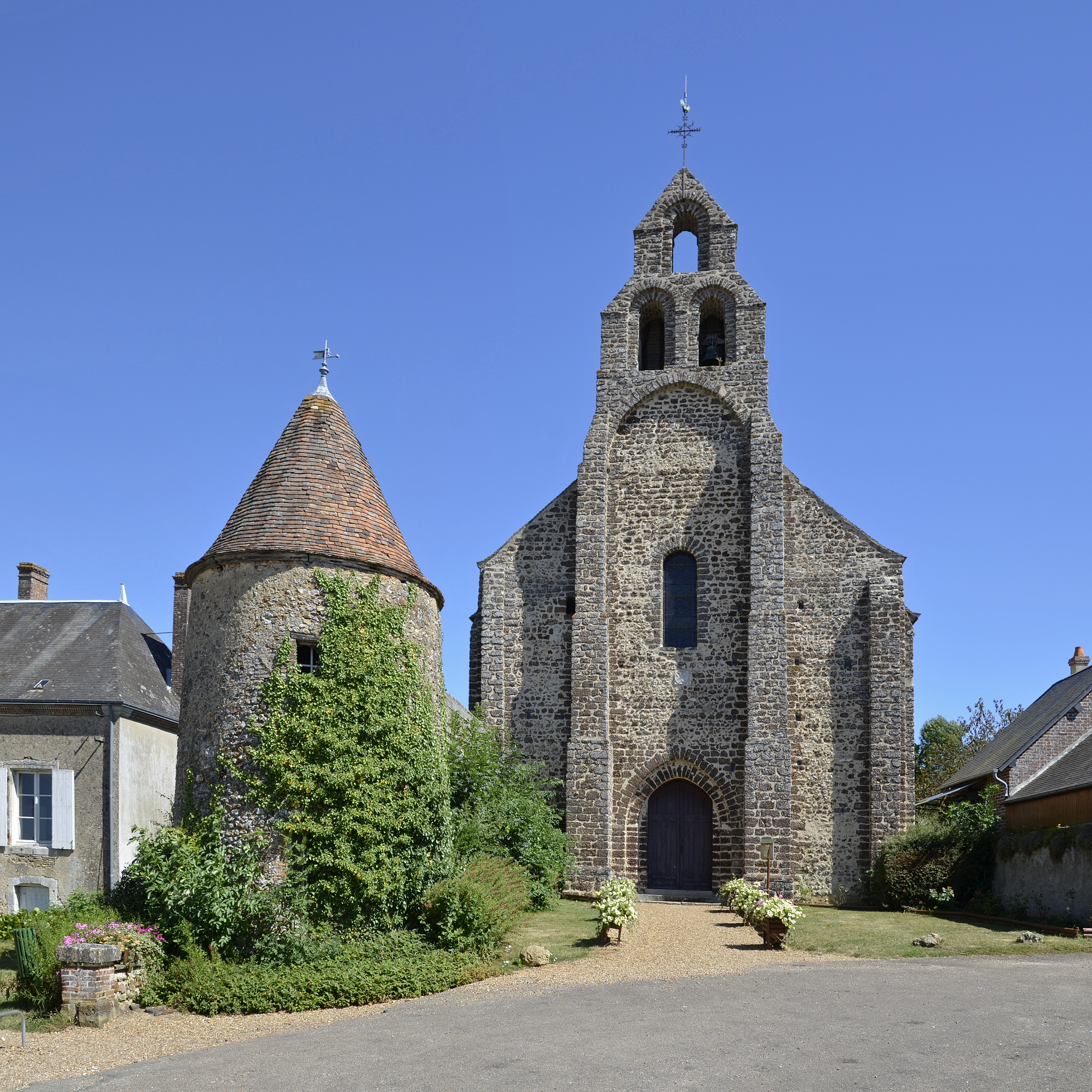 Notre-Dame Church, former chapel of the Commandry of Arville - Loir-et-Cher, France .